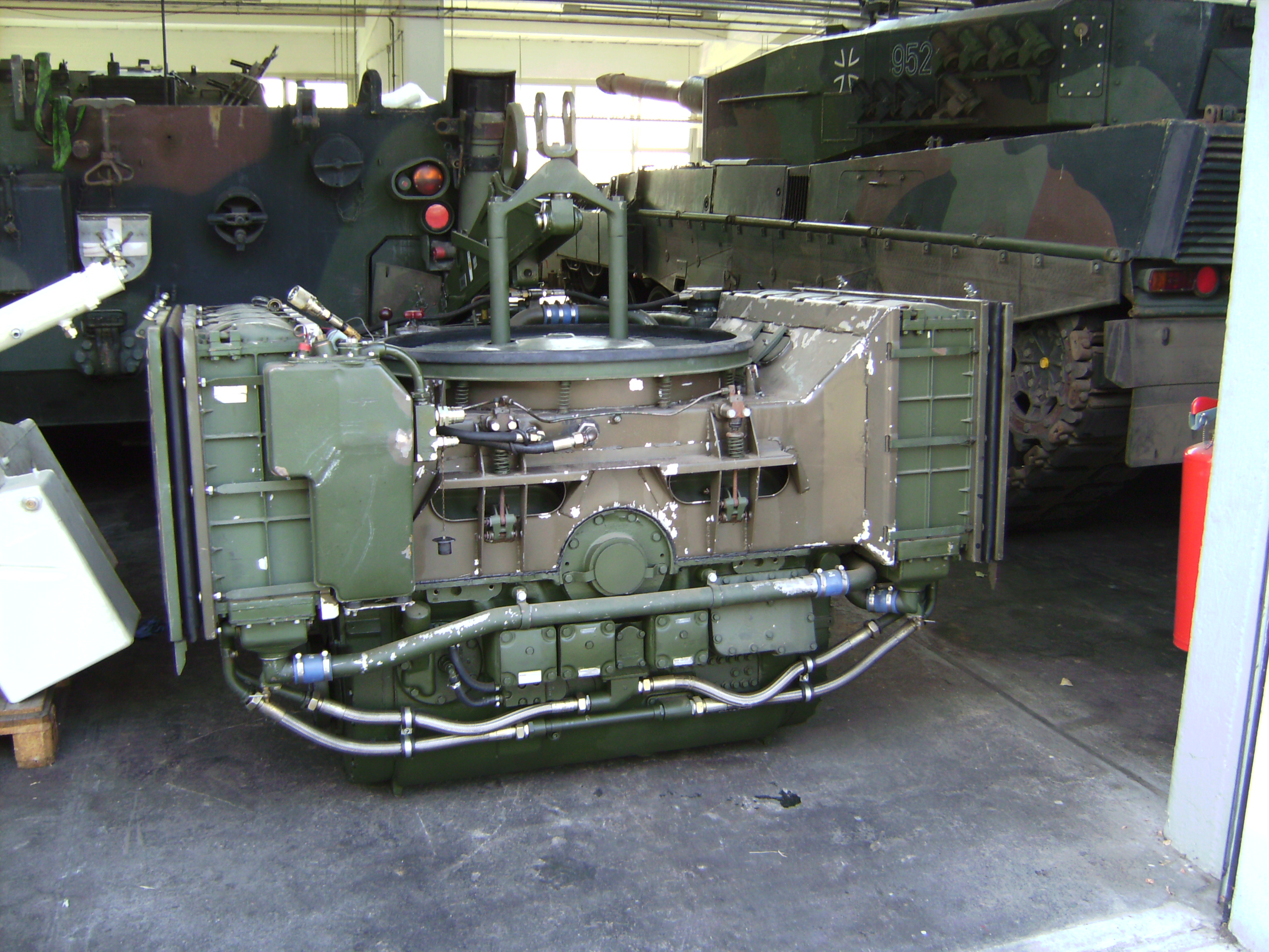 Engine Leopard 1 Family (MB 838, gearbox-end view of complete powerpack)